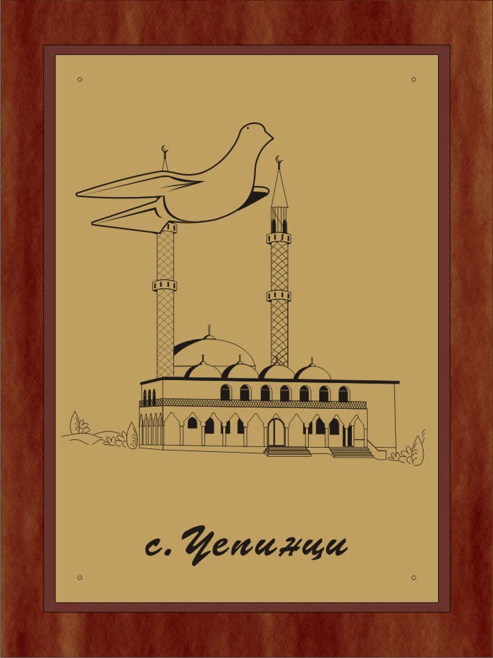 Sign of Chepintsi